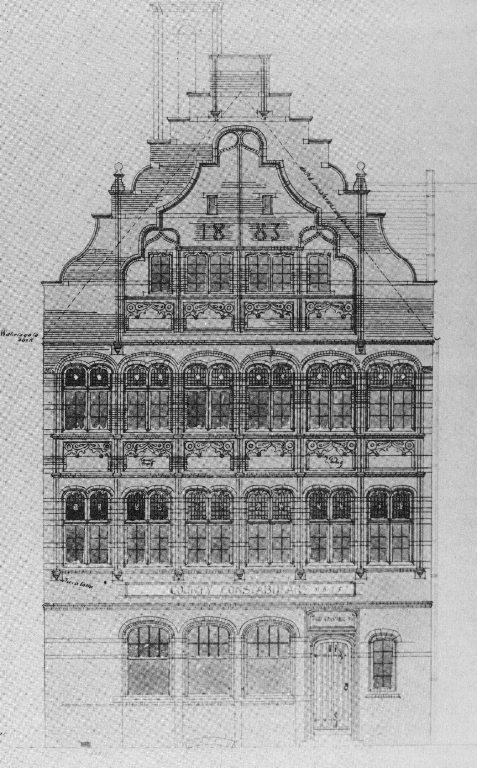 Scanned by the book by me. Drawing of the Cheshire County Constabulary, Chester in 1884